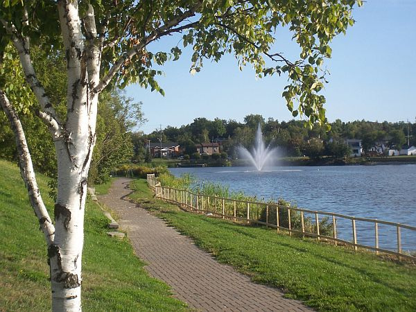 Minnow Lake and its Millennium Fountain